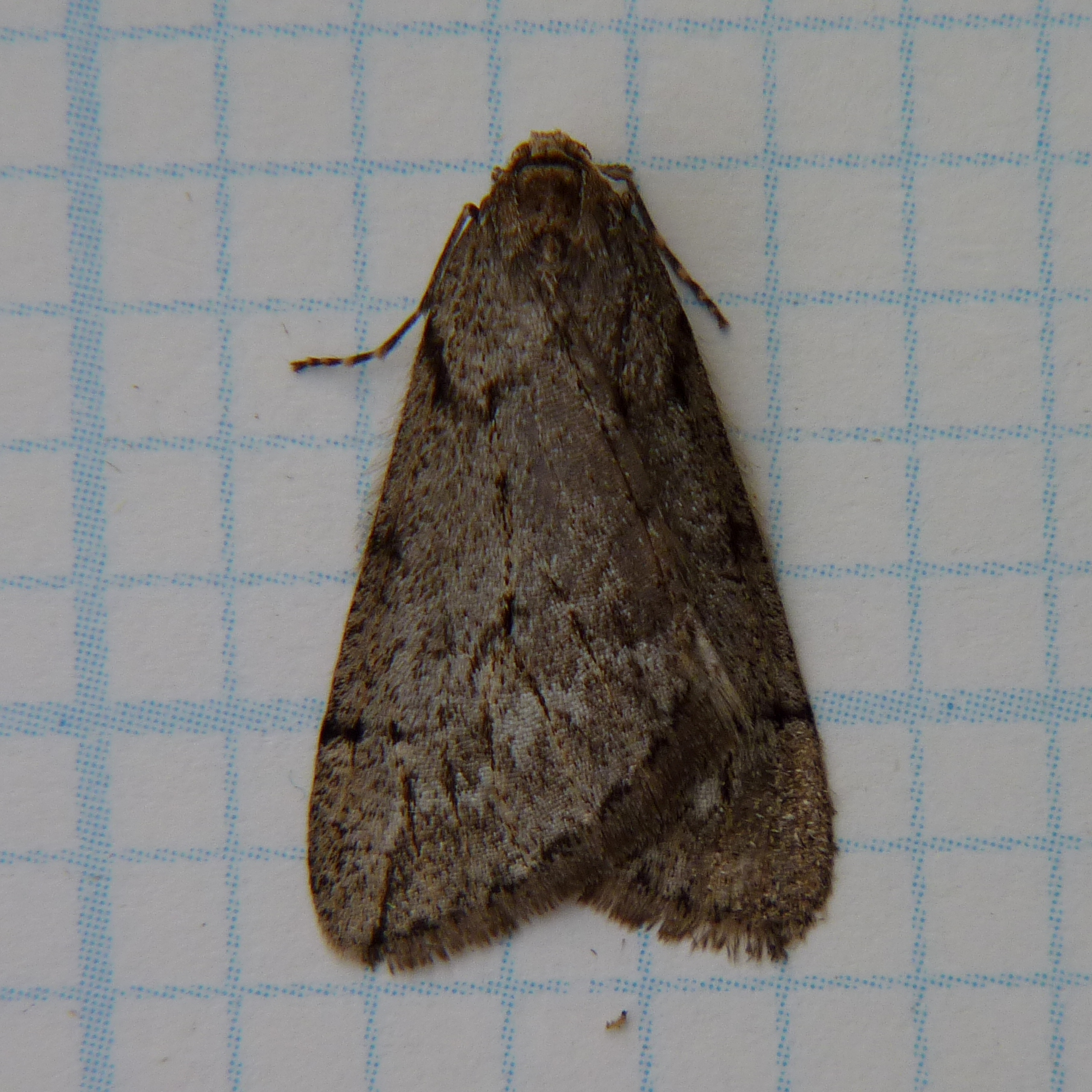 Spring Cankerworm (Paleacrita vernata) – Hodges#6662 BugGuide MPG Found on 2/24.